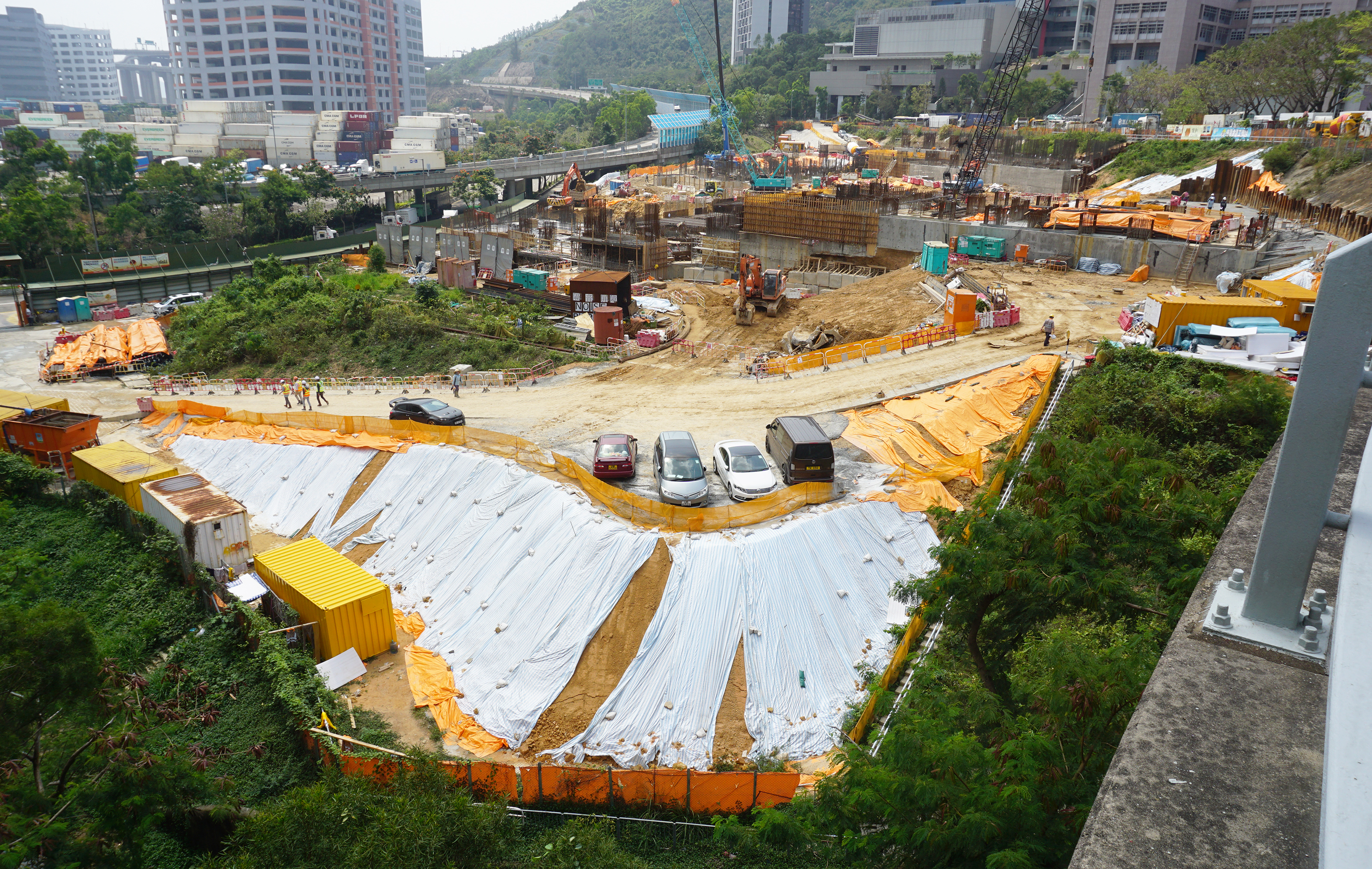 Ching Fu Court in Tsing Yi, Hong Kong.